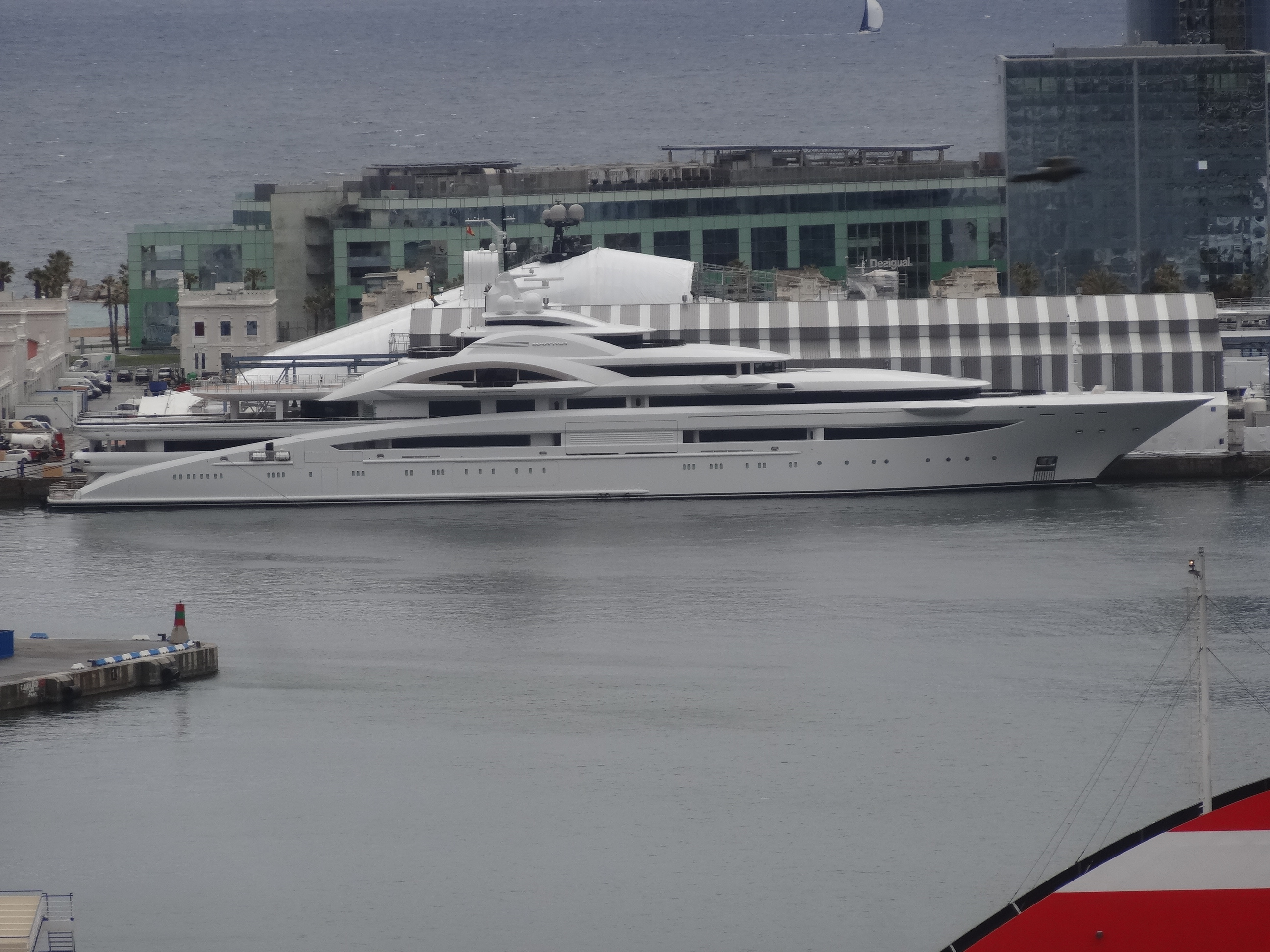 Maryah (ship, 2014)